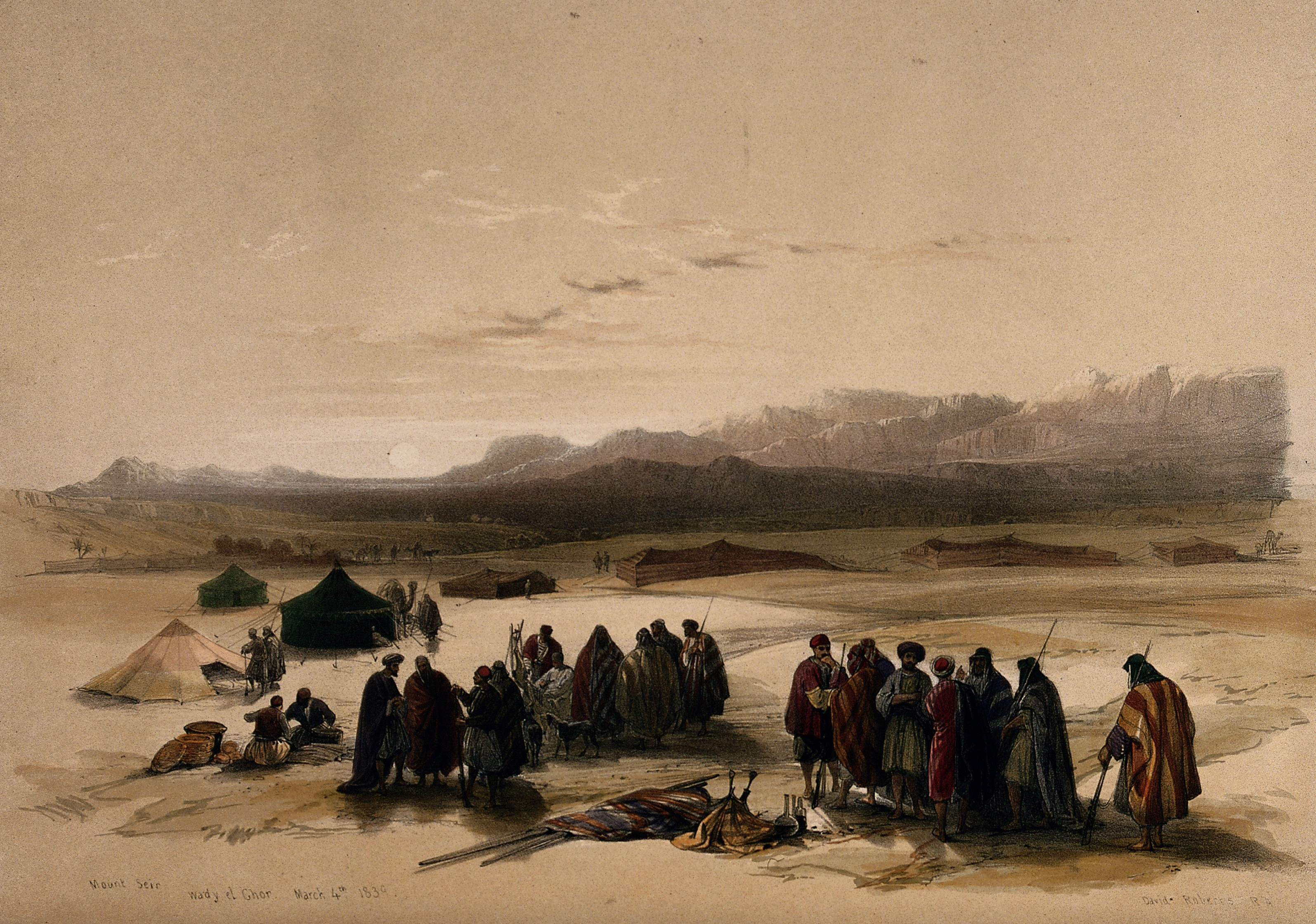 Encampment in the desert, with Mount Seir in the distance, Wady Arabah. Coloured lithograph by Louis Haghe after David Roberts, 1849. Iconographic Collections Keywords: David Roberts; Louis Haghe